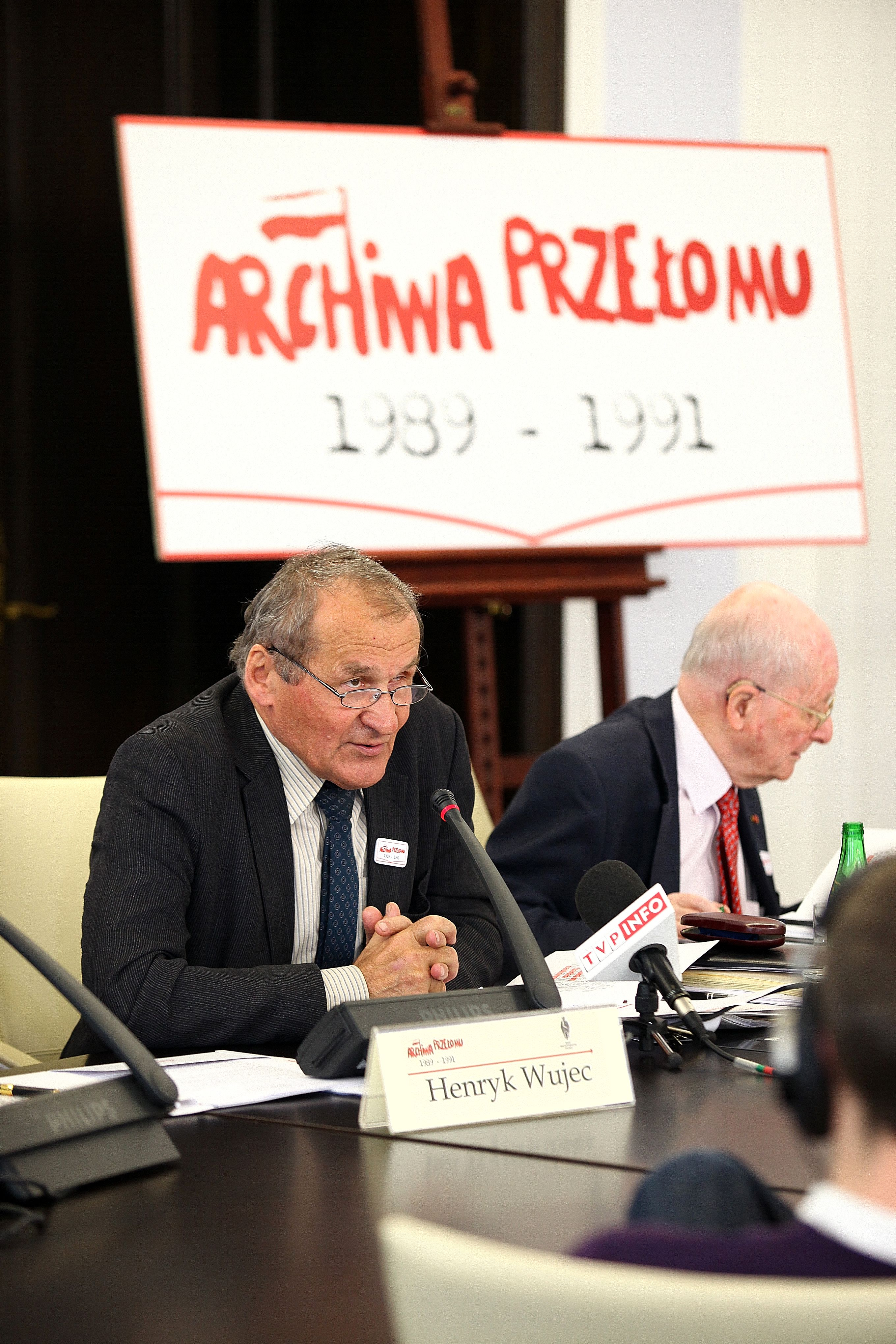 Henryk Wujec at the "Archives of 1989-1991 breakthorough" conference in the Polish Senate